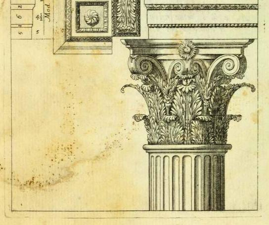 [Detail] Regola delli cinque ordini d'architettura di M. Jac. Barozzio da Vignola (1736). In the Julius S. Held Collection of Rare Books. Sterling and Francine Clark Art Institute Library.